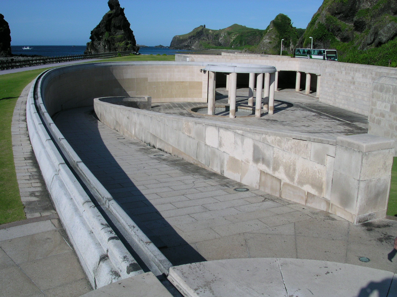 Green Island Human Rights Culture Park